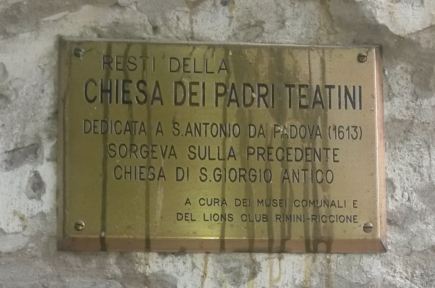 Ruins of Chiesa dei Teatini, Rimini